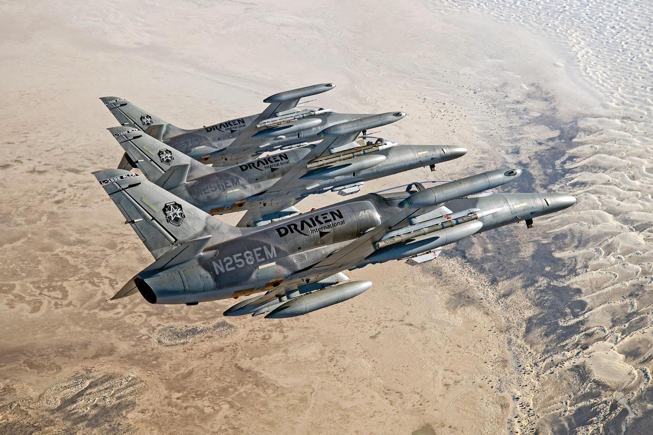 Draken International aircraft in flight. Photo by Erik Hildenbrandt.